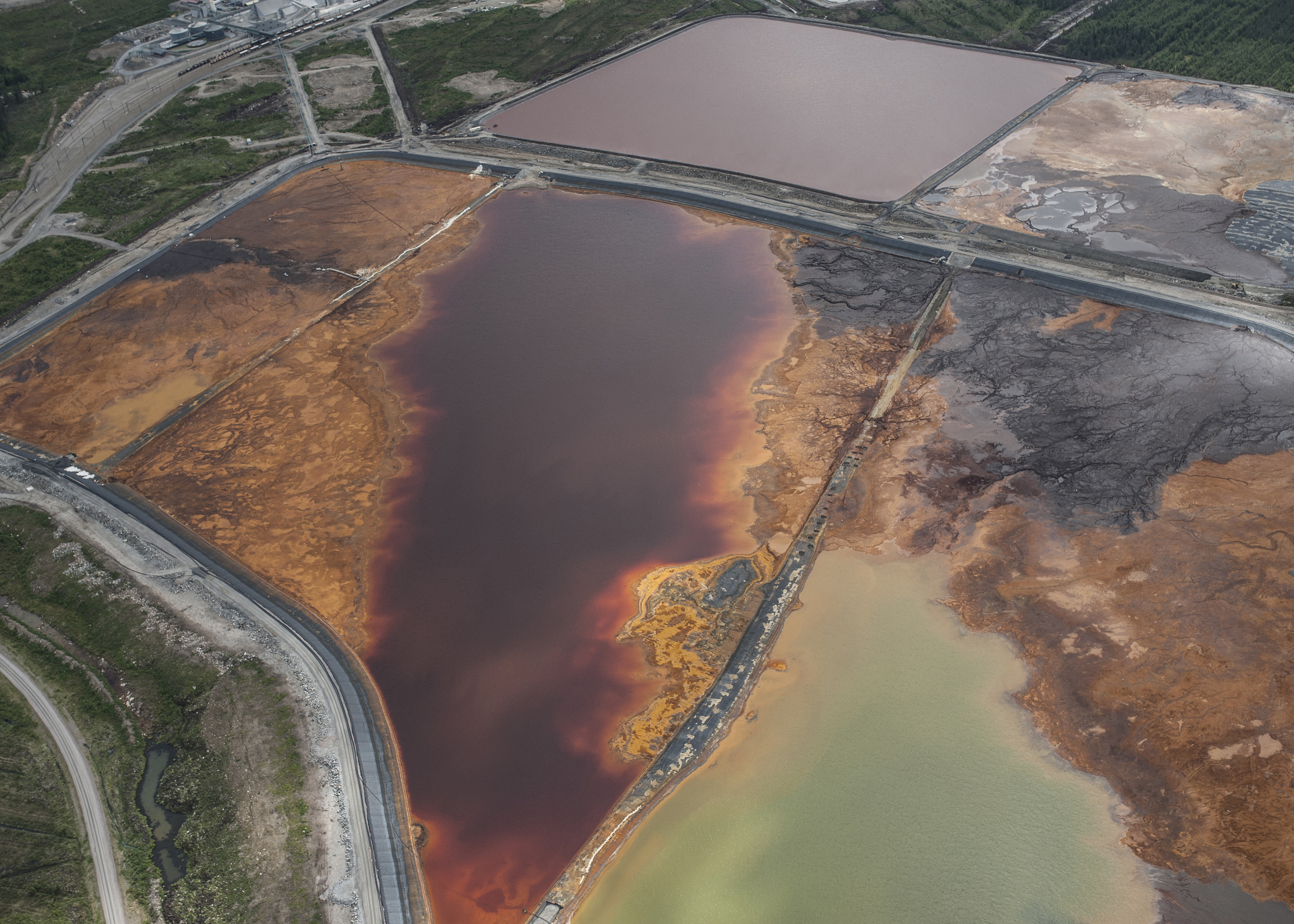 Aerial photograph of Talvivaara mine in Sotkamo, Finland. June 2013.